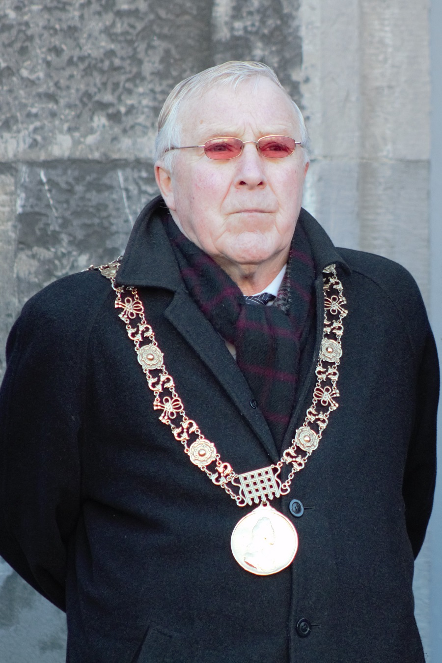 Christy Burke Lord Mayor of Dublin, during a service in Dublin on January 10th 2015, to honour the victims of the Charlie Hebdo attack in Paris on January 7th 2014. The gathering was organised by the National Union of Journalists (NUJ) at the Dubh Linn Garden.